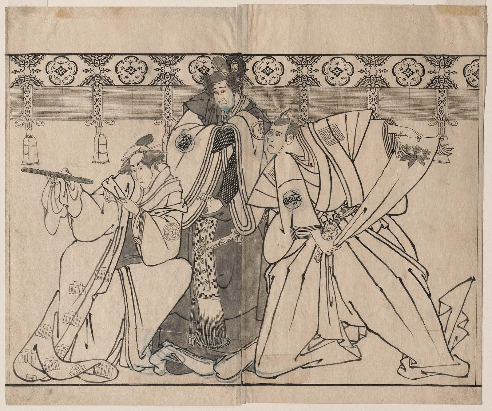 Han-shita-e for an unpublished ukiyo-e book by Japanese artist Tōshūsai Sharaku